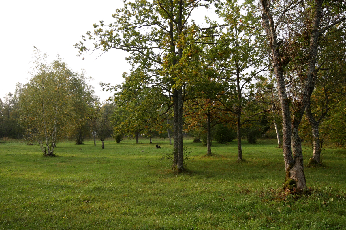 Laelatu, Lääne County, Estonia